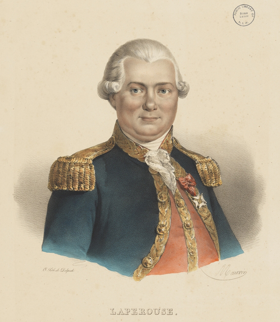 Jean-François de Galaup, comte de Lapérouse, lithograph c.1835, Antoine Maurin, State Library of New South Wales DL Pf 140